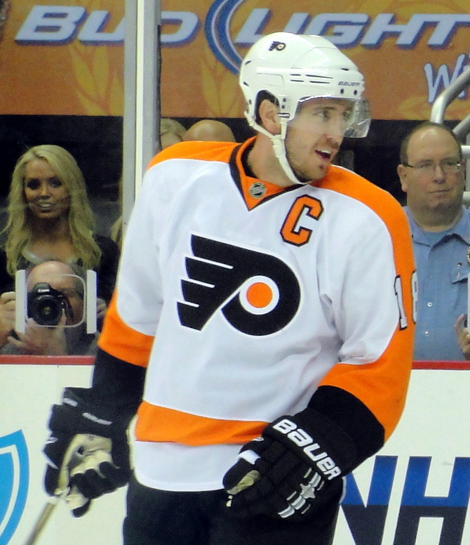 Mike Richards had reason to be happy as his Flyers were in the process of spoiling the Pittsburgh Penguins inaugural game at Consol Energy Center , October 7, 2010 in Pittsburgh, PA.